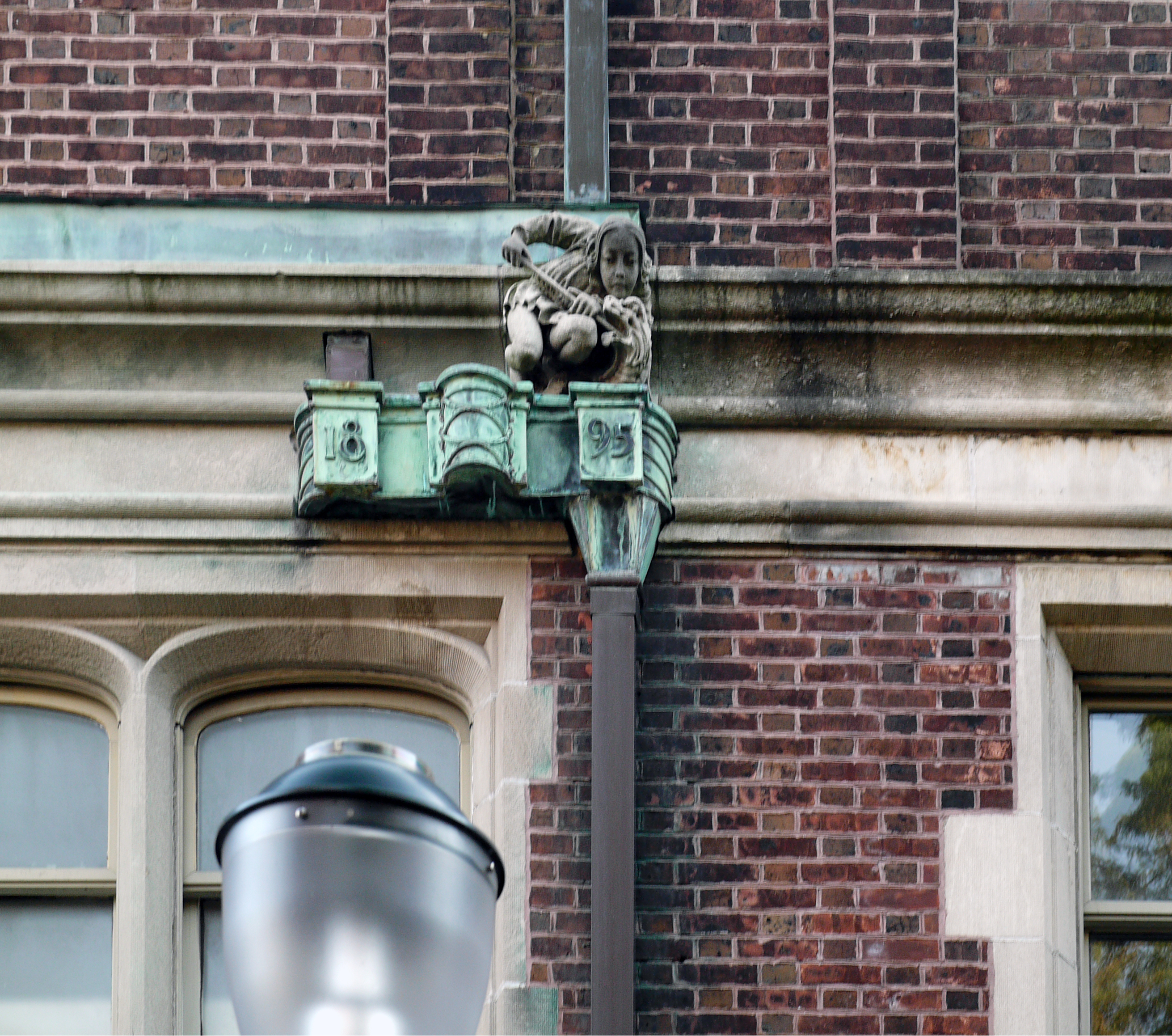 Leader head at University of Pennsylvania's South face of the Quadrangle on Spruce Walk